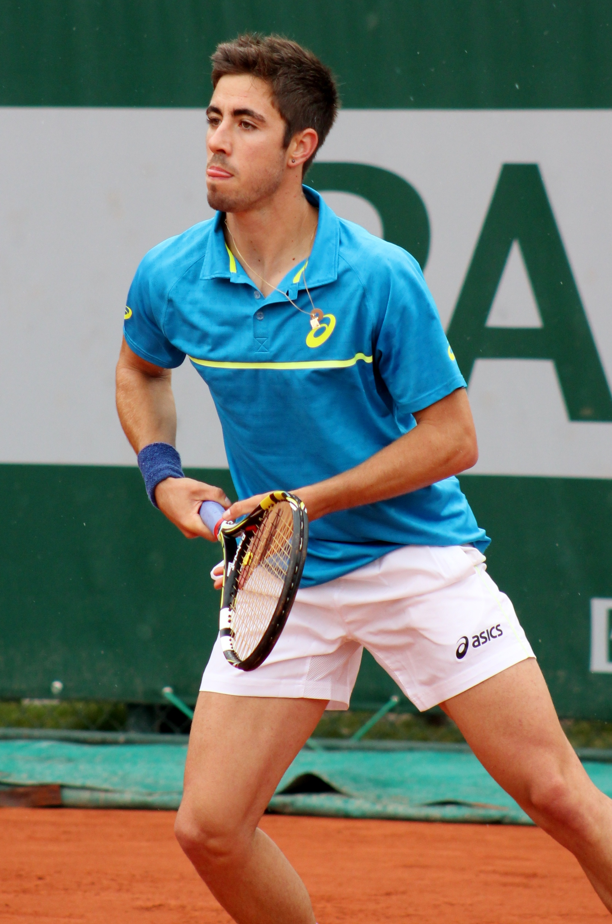 Maxime Teixeira playing at Roland Garros 2013